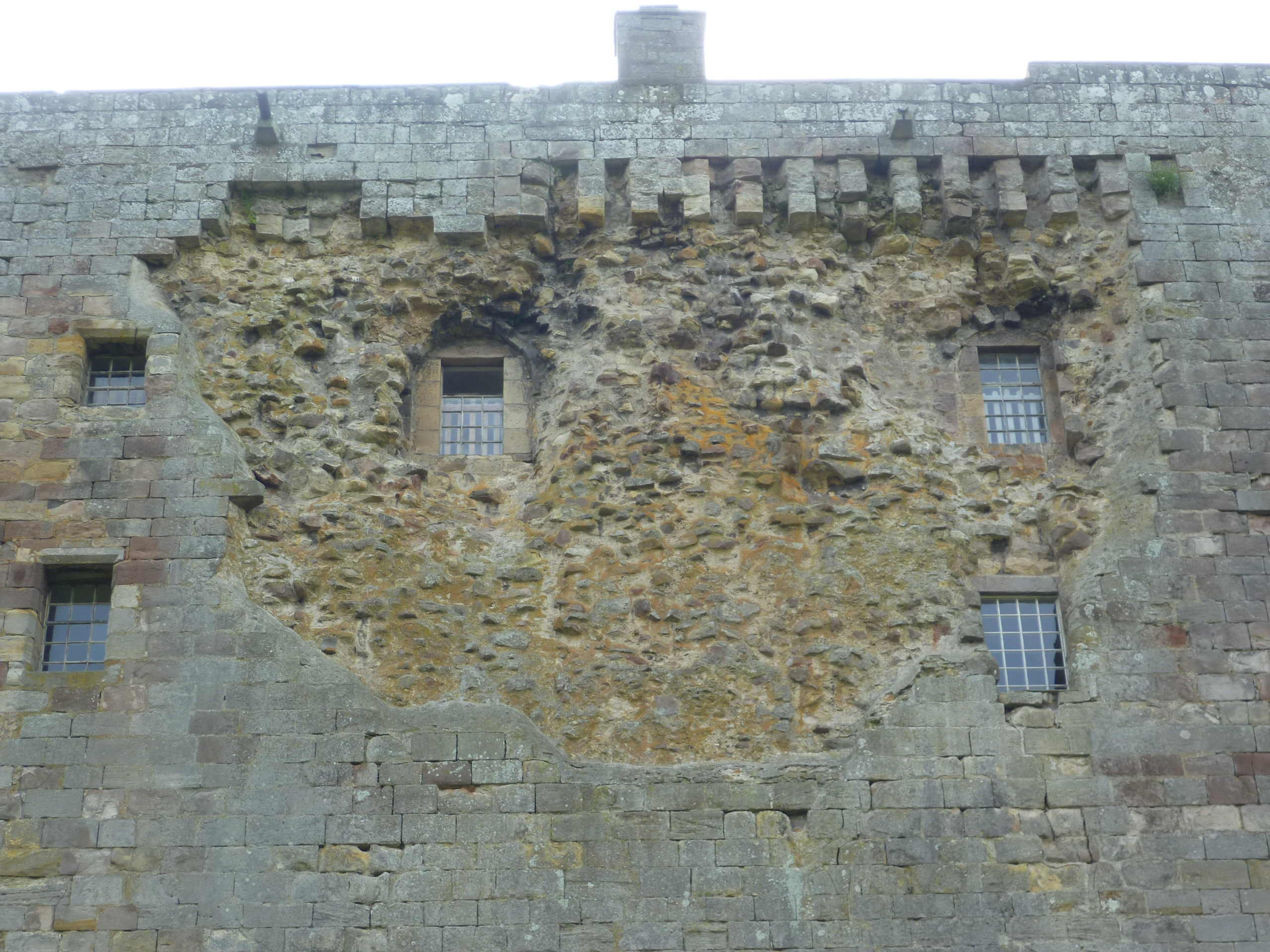 Damage believed to have been caused by a blast of artillery-fire from the guns of Oliver Cromwell in 1650. The owner, John, 10th Lord Borthwick, a supporter of the Stuarts, surrendered before the castle suffered further damage. "To the Governor of Borthwick Castle there. Sir, I thought fitt to send this trumpet to you to lett you know, that, if you please to walk away with your company, and deliver the house to such as I shall send to receive it, you shall have liberty to carry off your armes and goods and such other necessaries as you have. You have harboured such parties in your house as have basely unhumanely murdered our men; if you necessitate me to bend my cannon against you, you must expect what I doubt you will not be pleased with. I expect your present answer, and rest your servant, O. Cromwell"